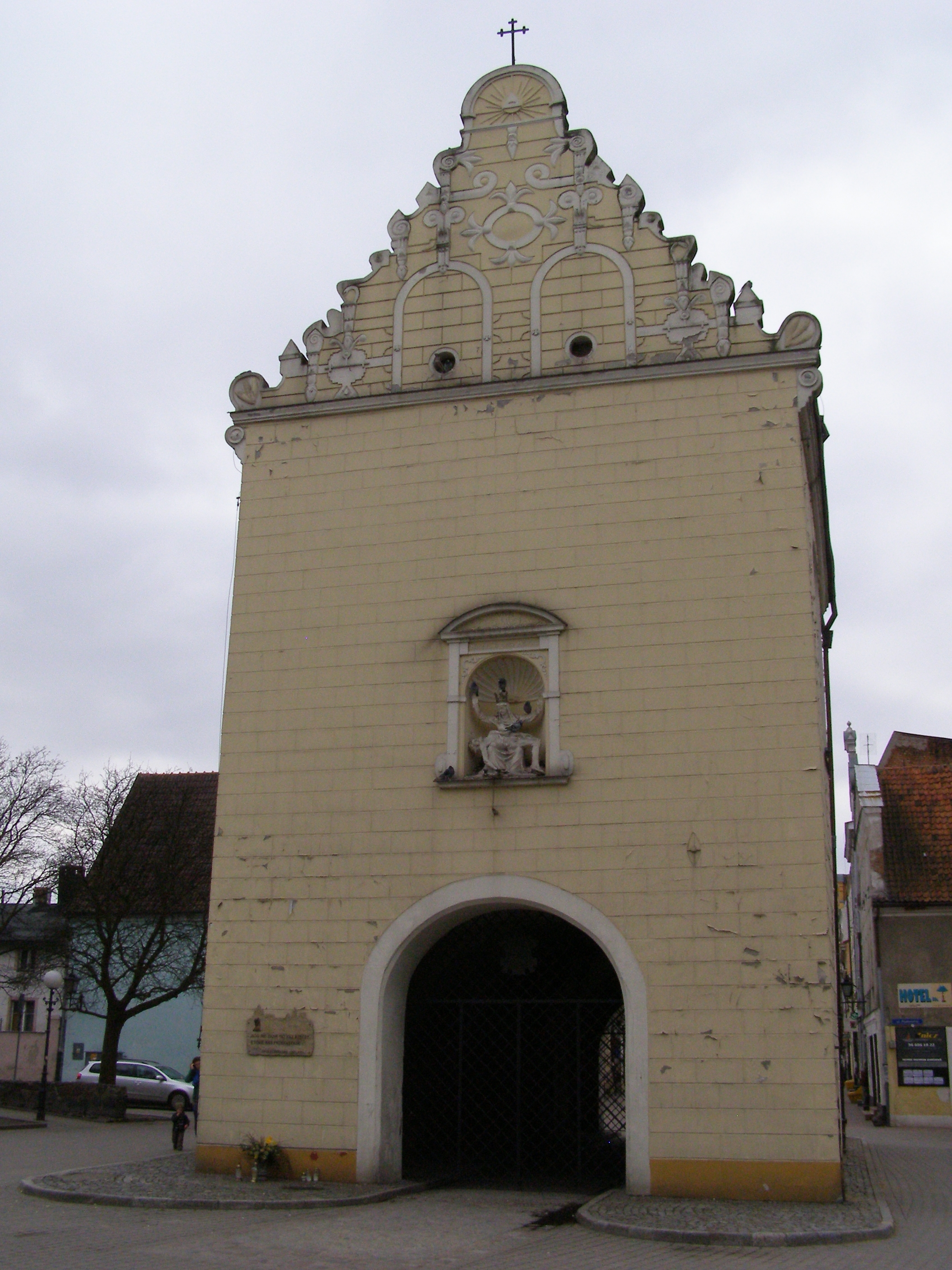 Chełmno - Grudziądzka Gate